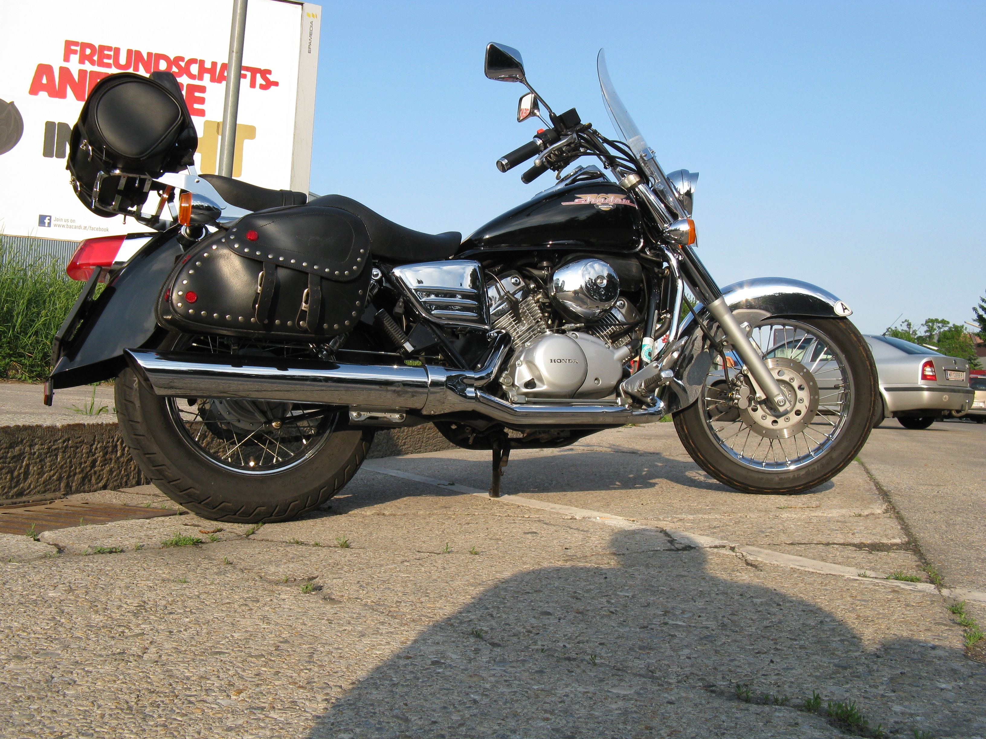 Honda Shadow VT 125 C1 with original Honda Accessoires